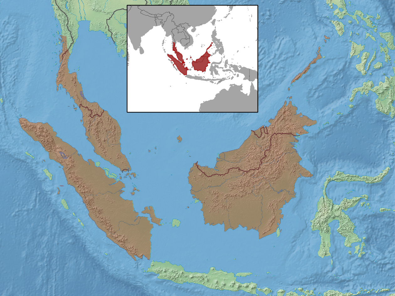 geographic distribution of Sundamys muelleri